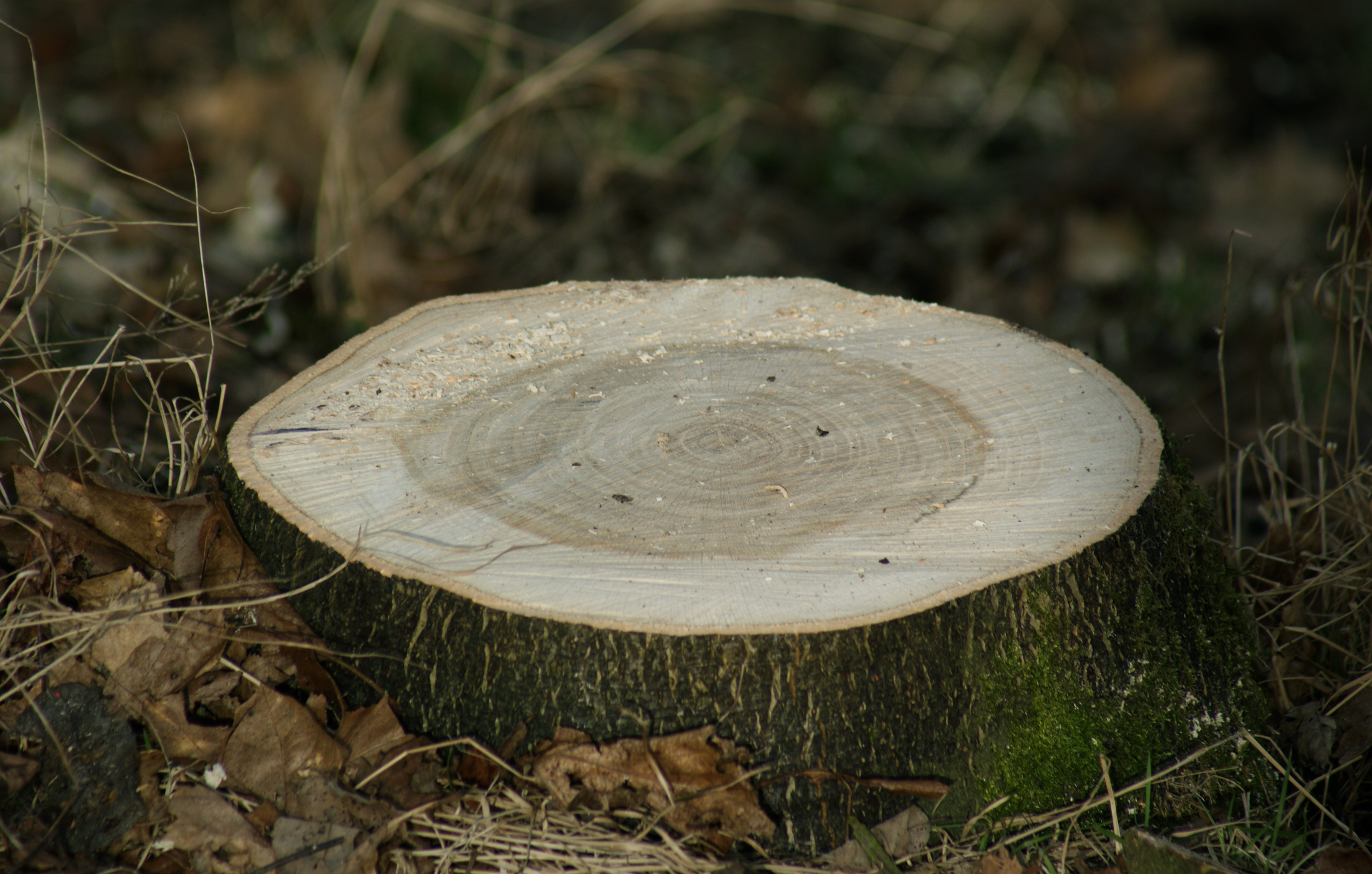 An image showing a tree stump aprox. 2 hours after cutting.